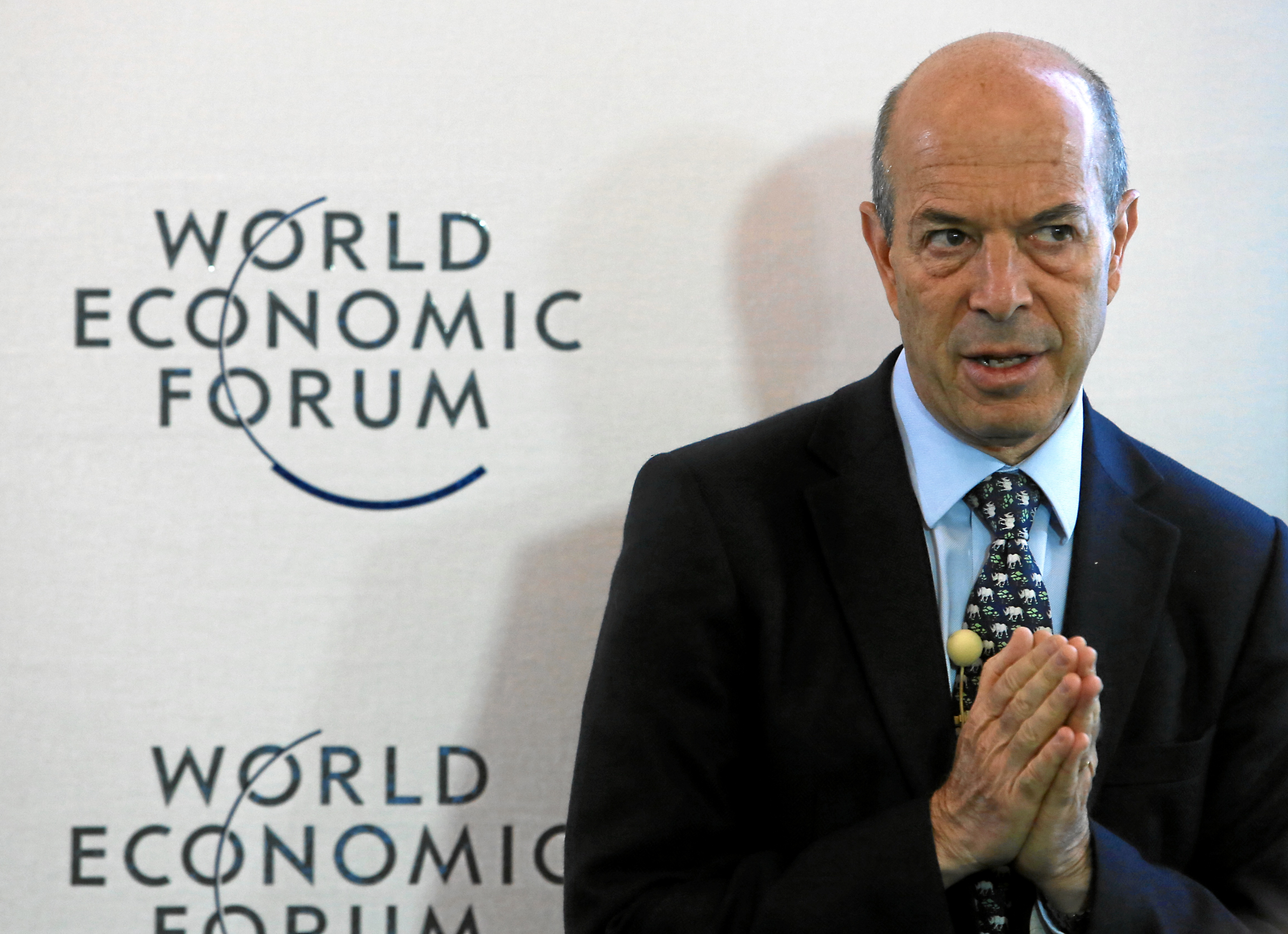 DAVOS/SWITZERLAND, 24JAN13 - Ian Goldin, Director and Professor, Oxford Martin School, University of Oxford, United Kingdom; Global Agenda Council on Catastrophic Risksduring the session 'Ideaslab / Oxford - 'Reinforcing Critical Systems' at the Annual Meeting 2013 of the World Economic Forum in Davos, Switzerland, January 24, 2013.. . Copyright by World Economic Forum. . Monika Flueckiger